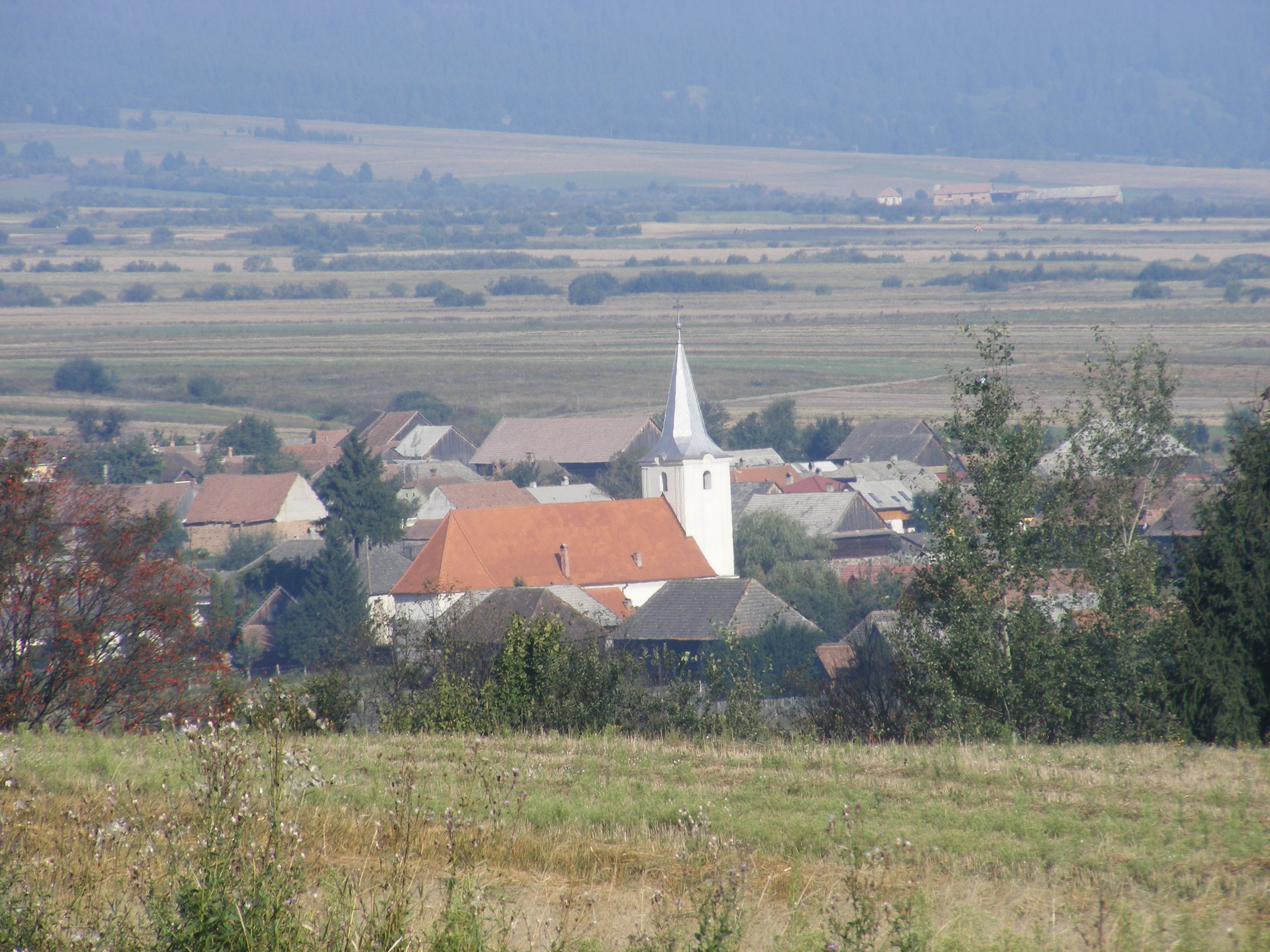 Tuşnadu Nou